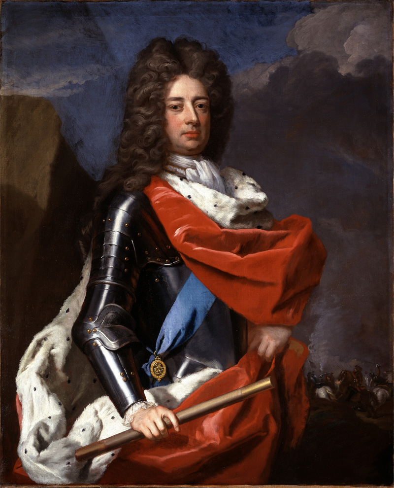 John Churchill, 1st Duke of Marlborough, Captain-General of the English forces and Master-General of the Ordnance, 1702 (c), attributed to Michael Dahl, after Godfrey Kneller. This painting is in the collection of the National Army Museum, London.